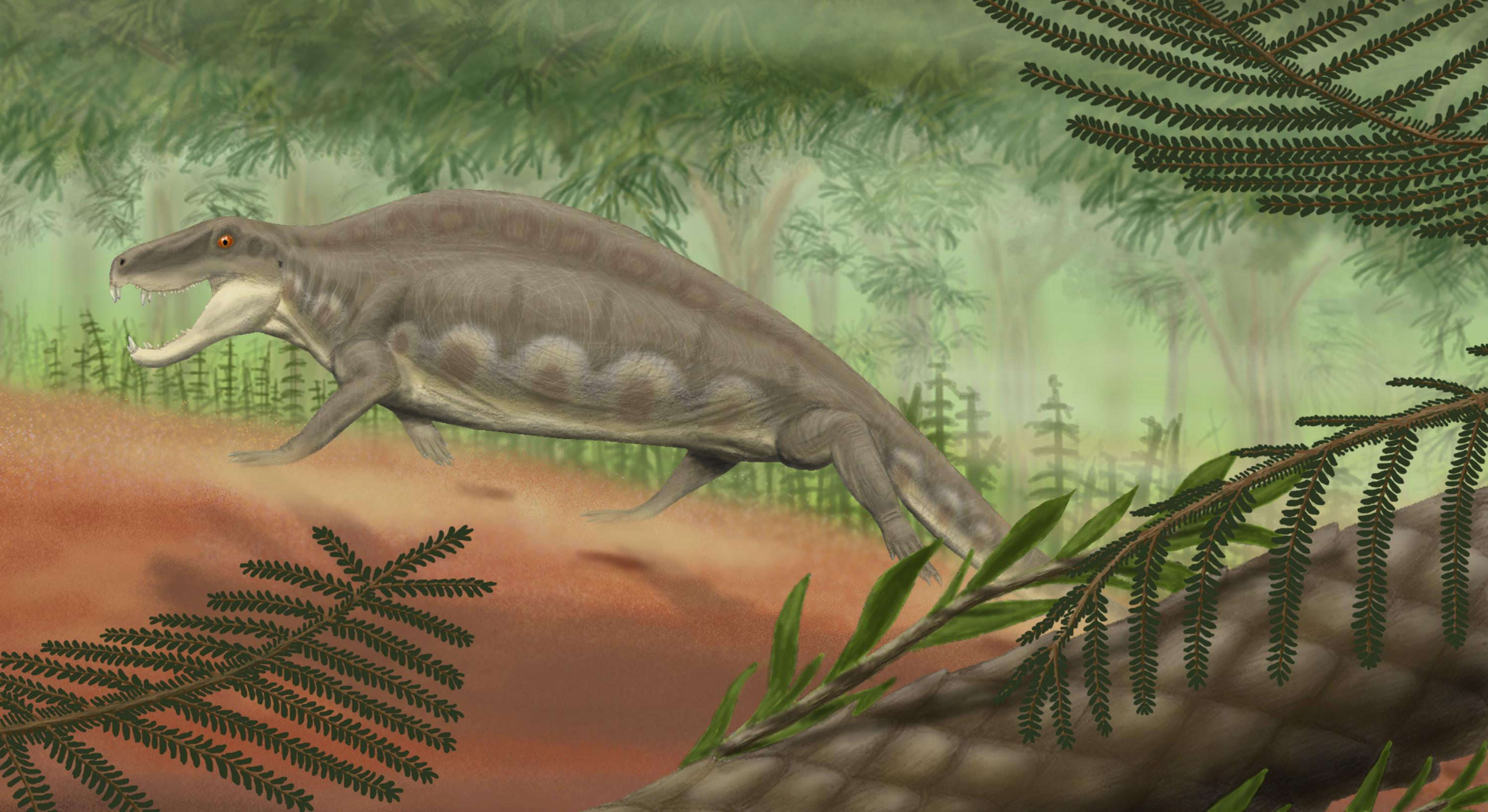 Life restoration of Ctenorhachis jacksoni. Foreground flora based on Walchia and Culmitzschia. Based on figure 5 of "A new sphenacodontid pelycosaur (Synapsida) from the Wichita Group, Lower Permian of North-Central Texas" by R. W. Hook and N. Hotton, III Journal of Vertebrate Paleontology 11(1):37-44